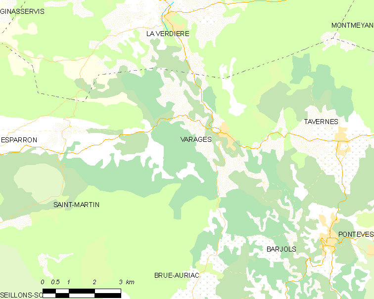 Map of French municipality Varages